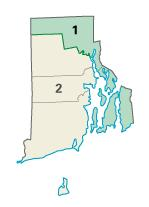 Image adapted from US fed gov't source